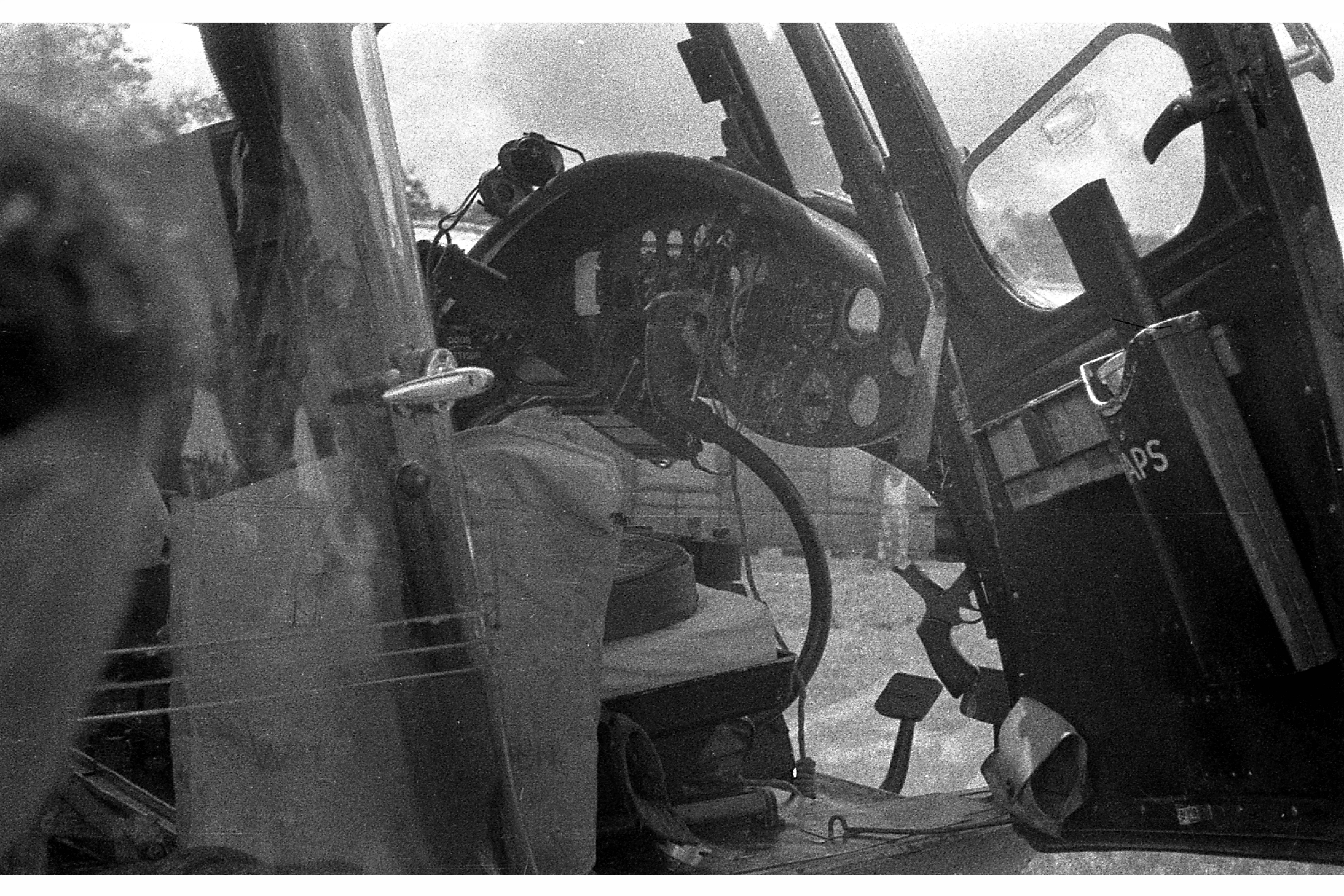 A Bristol Sycamore Helicopter, as photographed by Paul Hadfield during his time in the HM Forces.